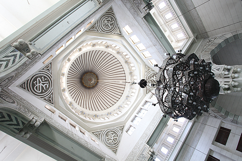 Dome of the el-Nour Mosque, el-'Abbasiya, Cairo, Egypt